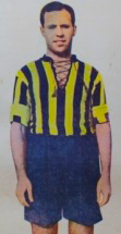 Fikret Arican, Turkish football player.